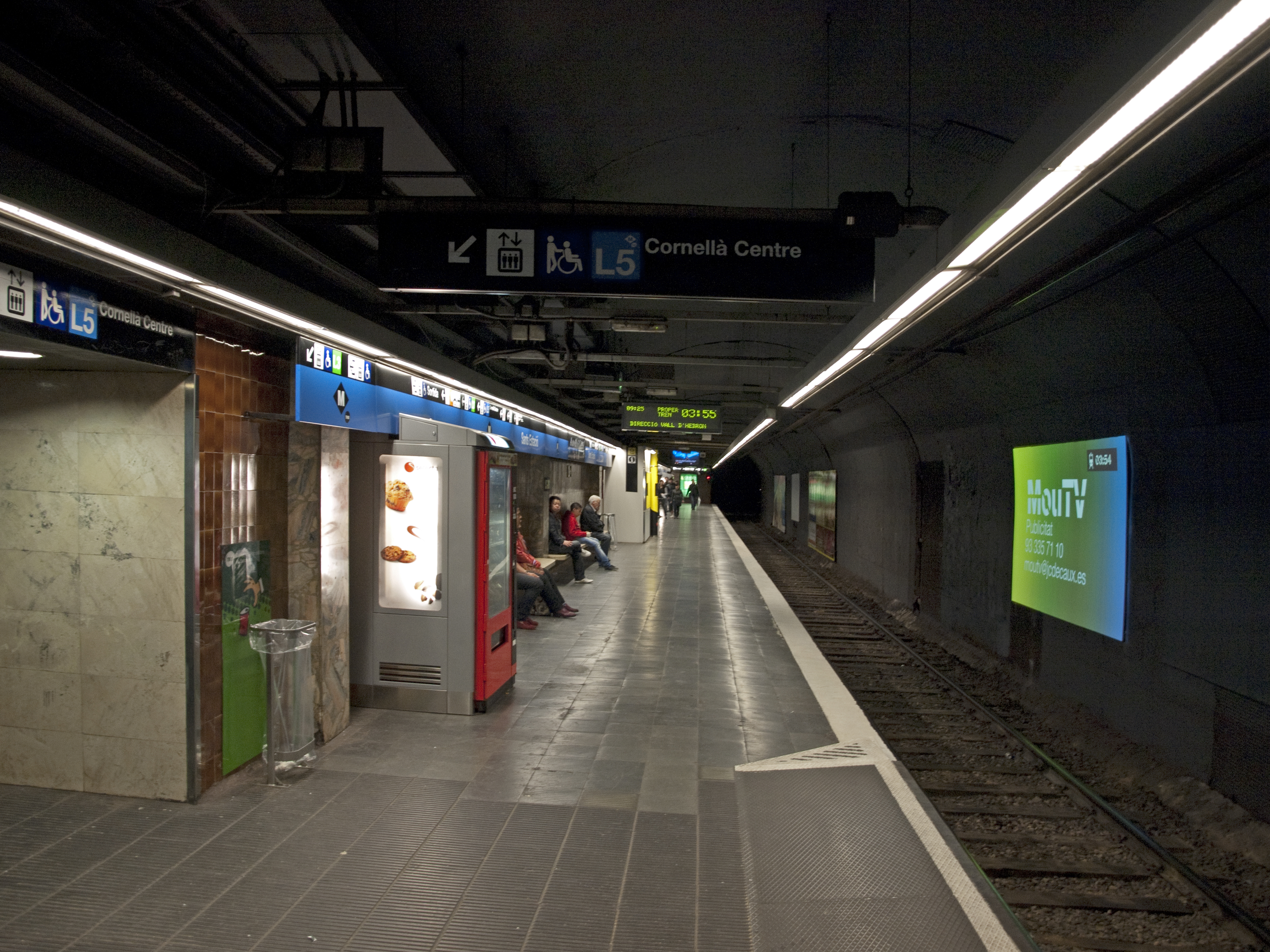 Sants Estacio station, Line L5